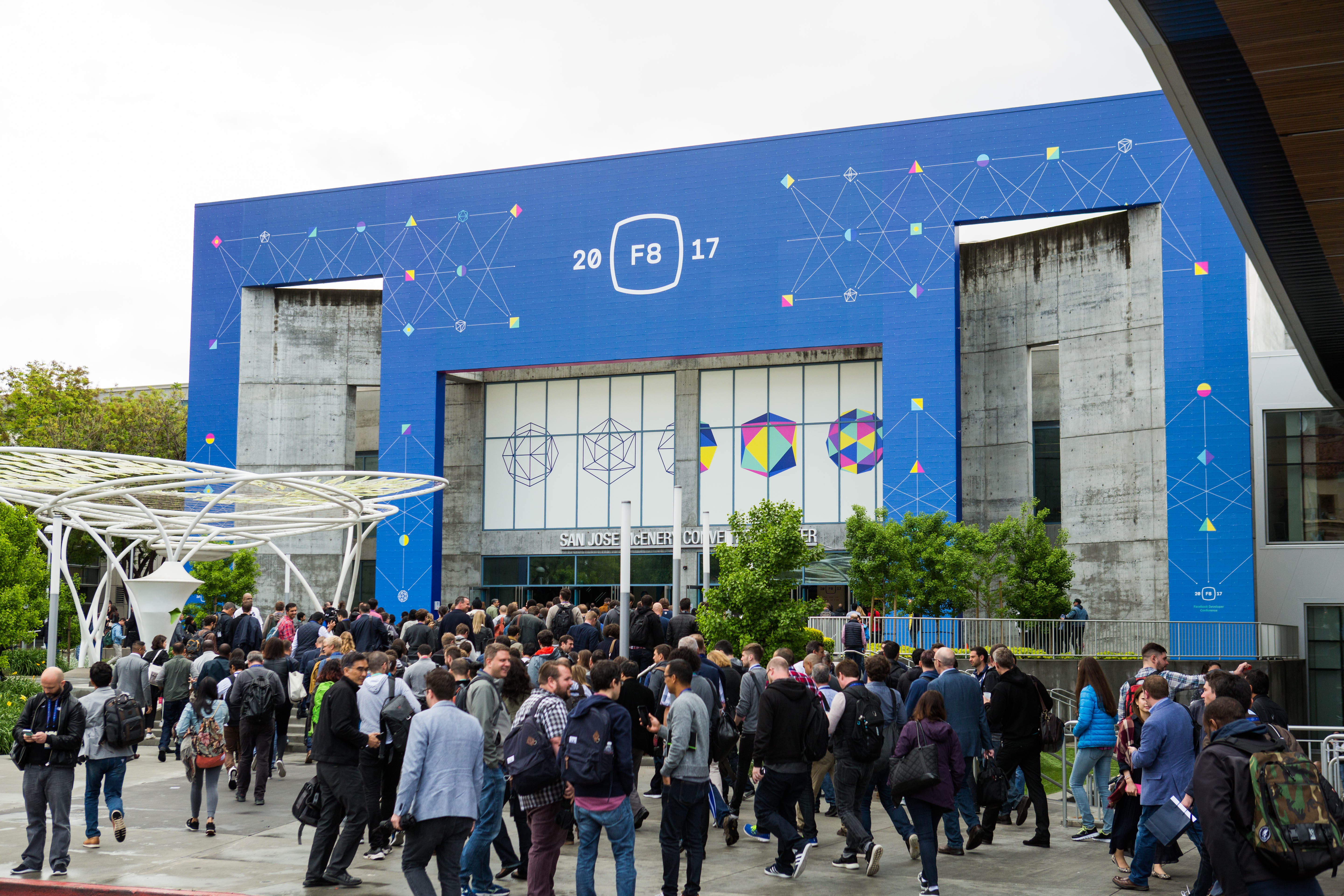 Facebook F8 Developer's Conference 2017 F8 2017